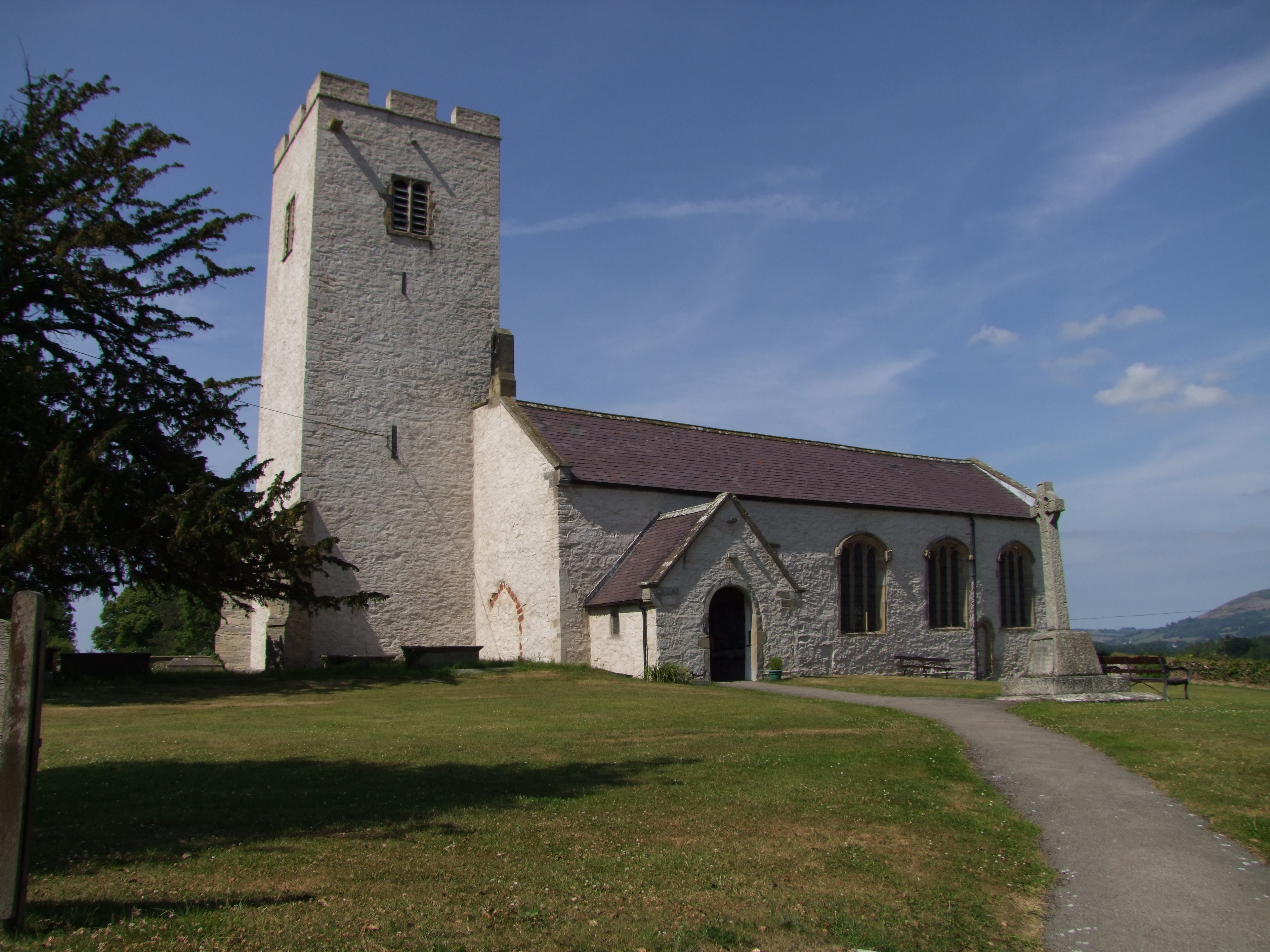 This church is located beside the Whitchurch Road, Denbigh